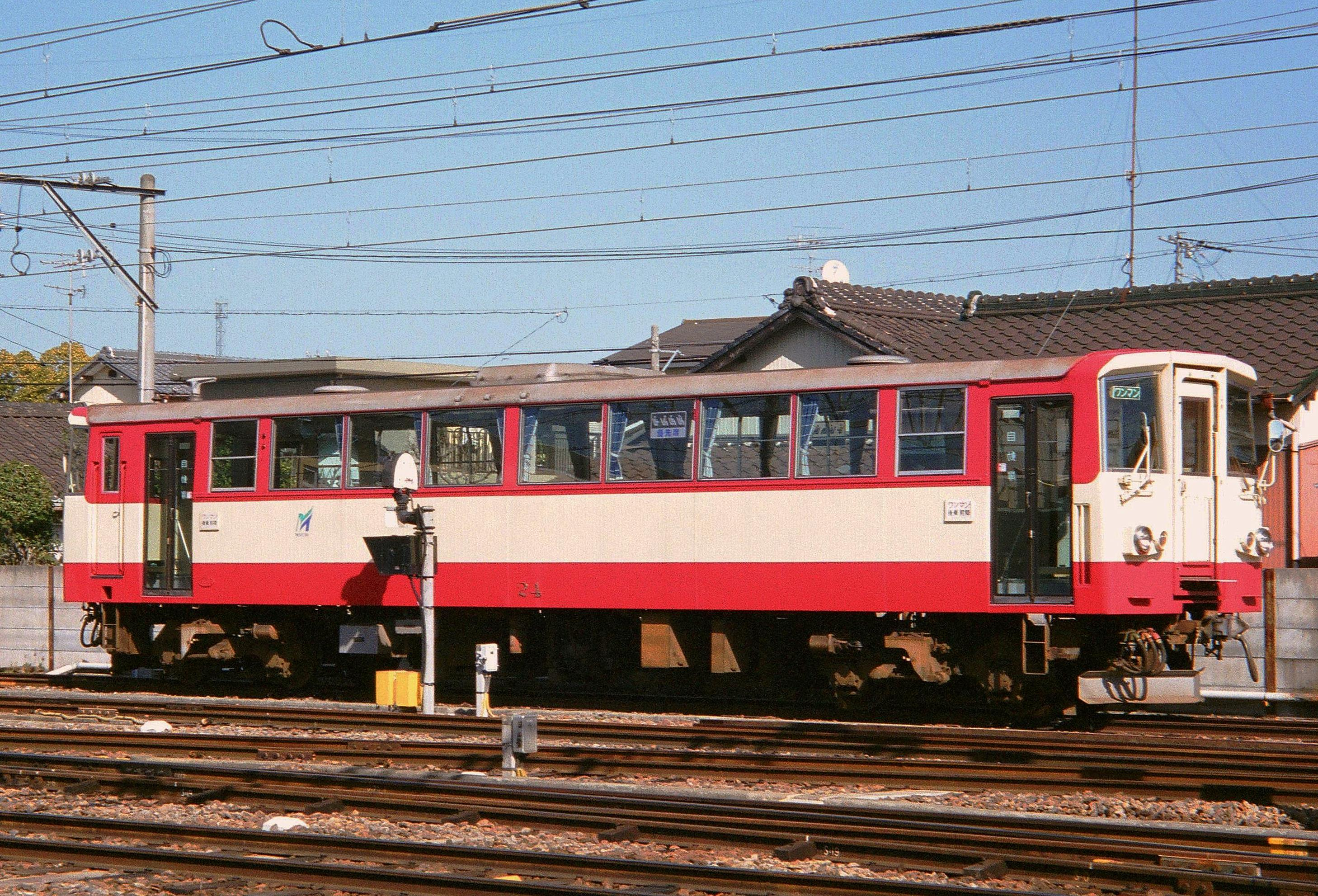 Nagoya-Railroad Makawa Line Kiha 24 Diesel railcar.